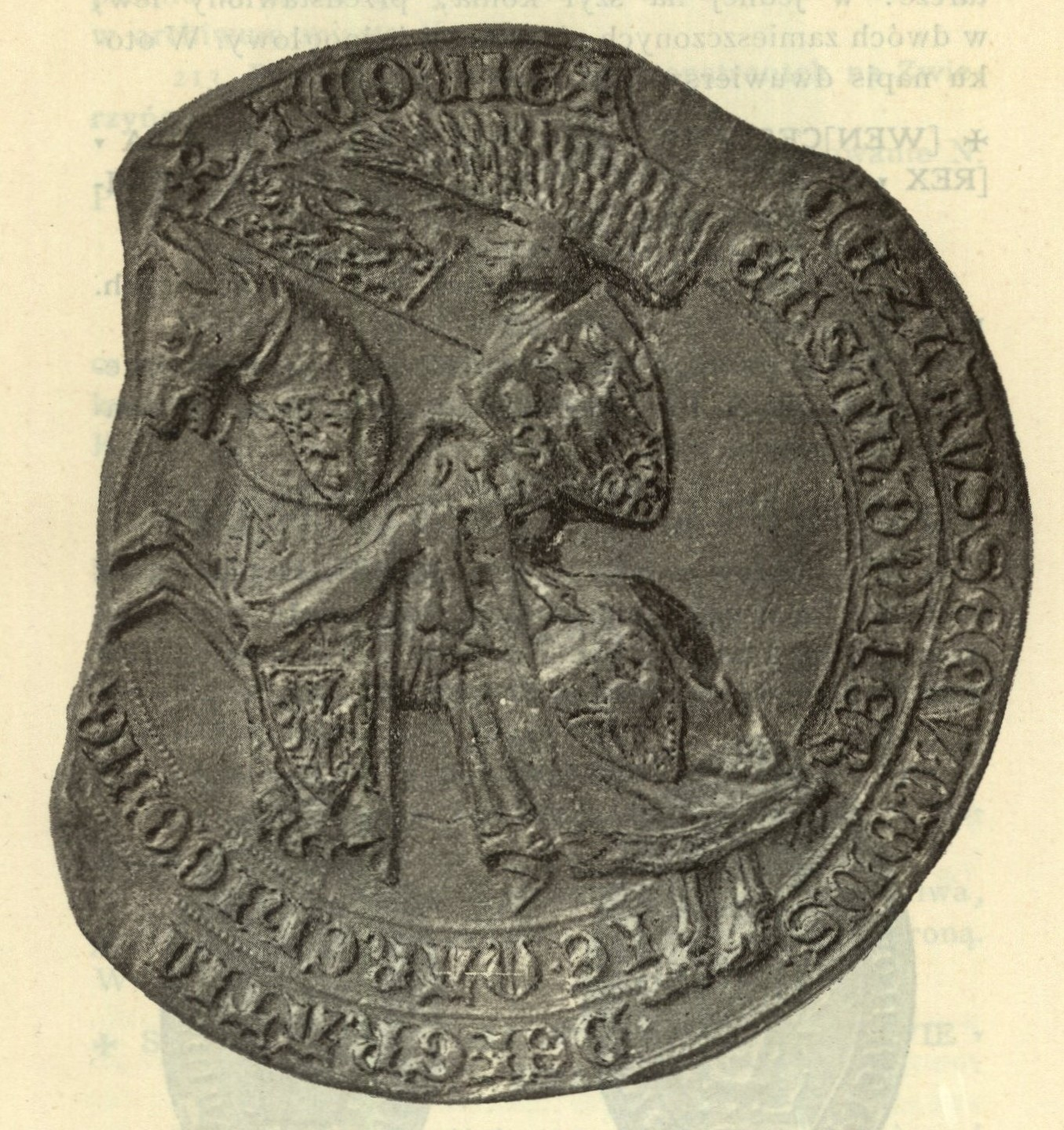 Seal of Wacław II king of Poland